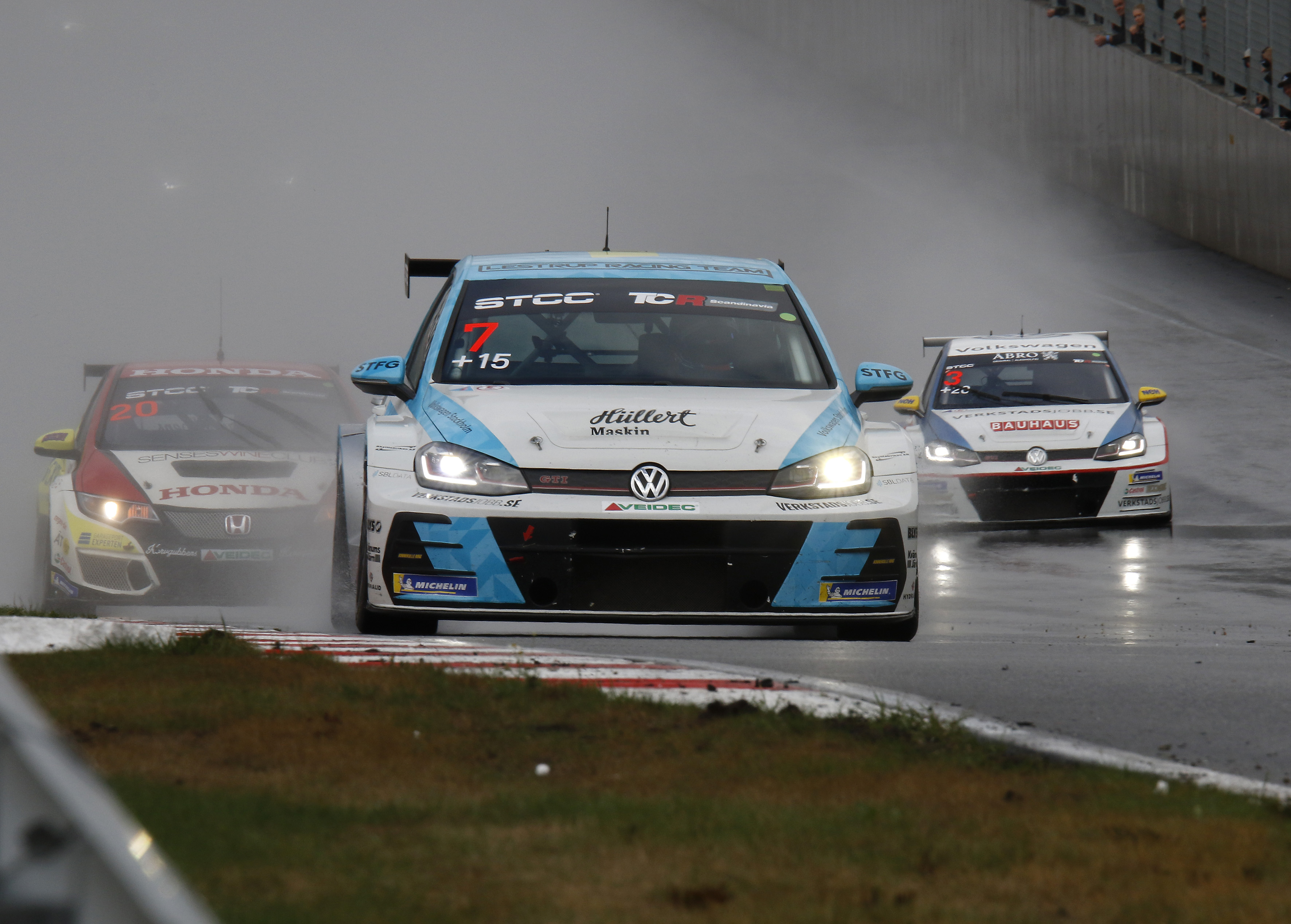 Andreas Wernersson, driving for Lestrup Racing, at the Rudskogen round during the 2018 STCC season in his Volkswagen Golf GTI TCR.